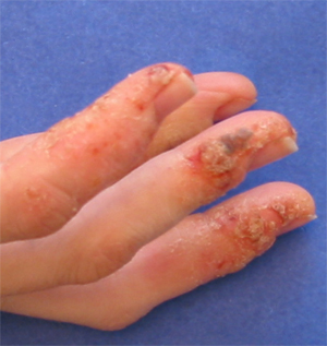 Author: Myself. This is a photograph taken of a member of my family suffering from dyshidrotic dermatitis. Permission has been given by the subject of the photograph and myself to use this photo on wikipedia. eczema